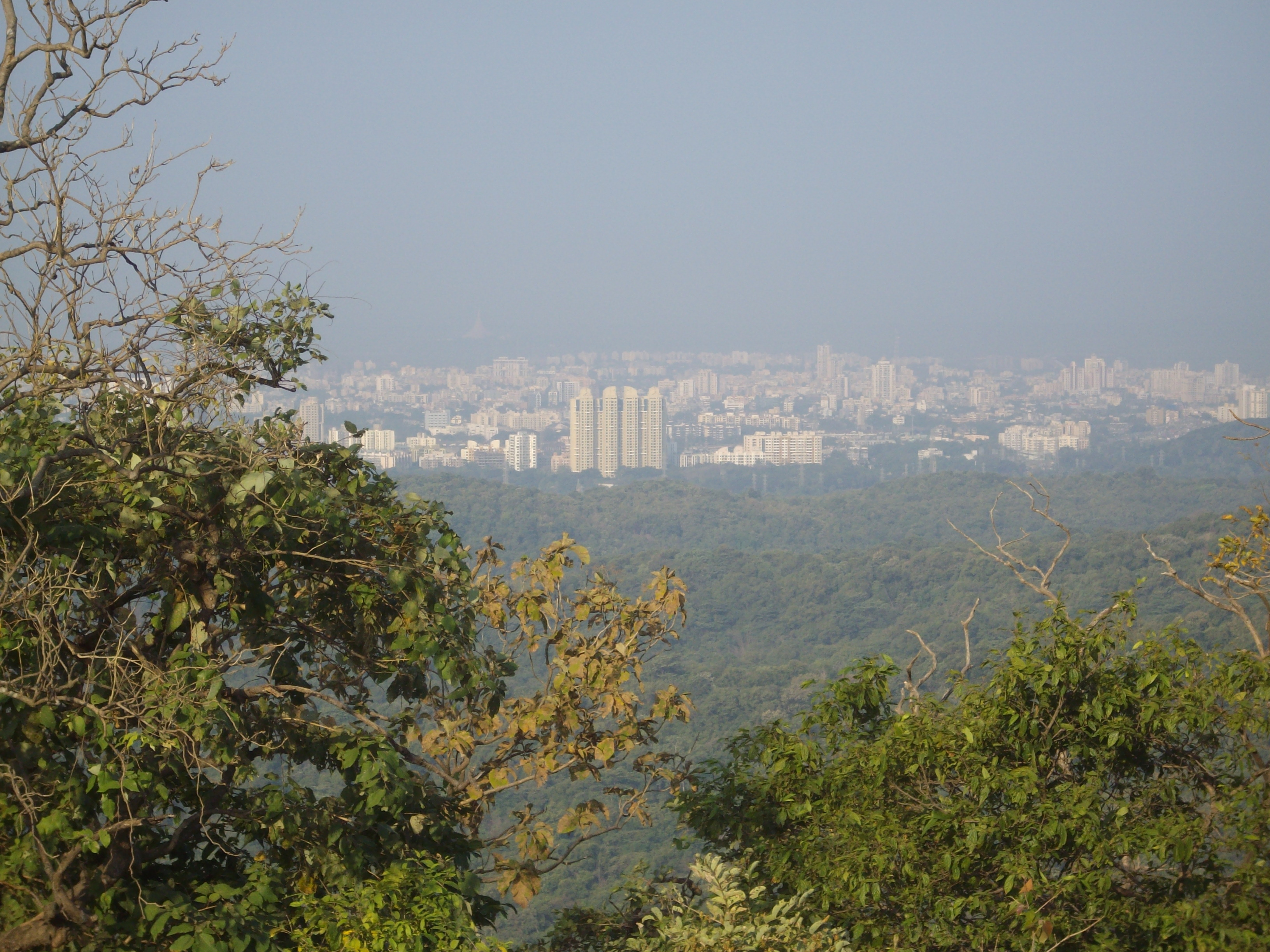 "FORESTED Sanjay Gandhi National Park" a jungle fortress surrounded by "MUMBAI'S CONCRETE JUNGLE.A view from the peak of the National Park.